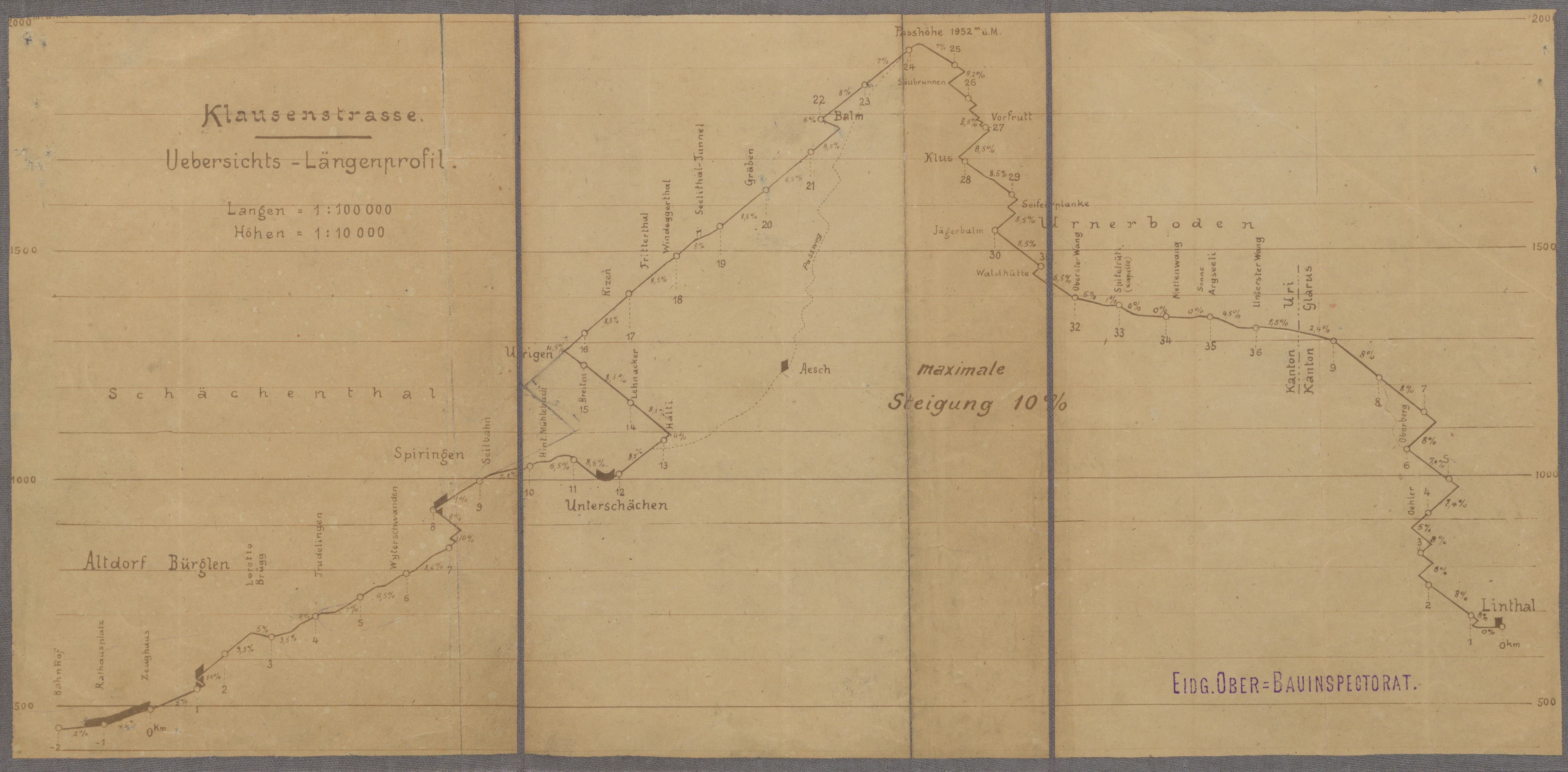 Longitudinal section of the Klausen Pass